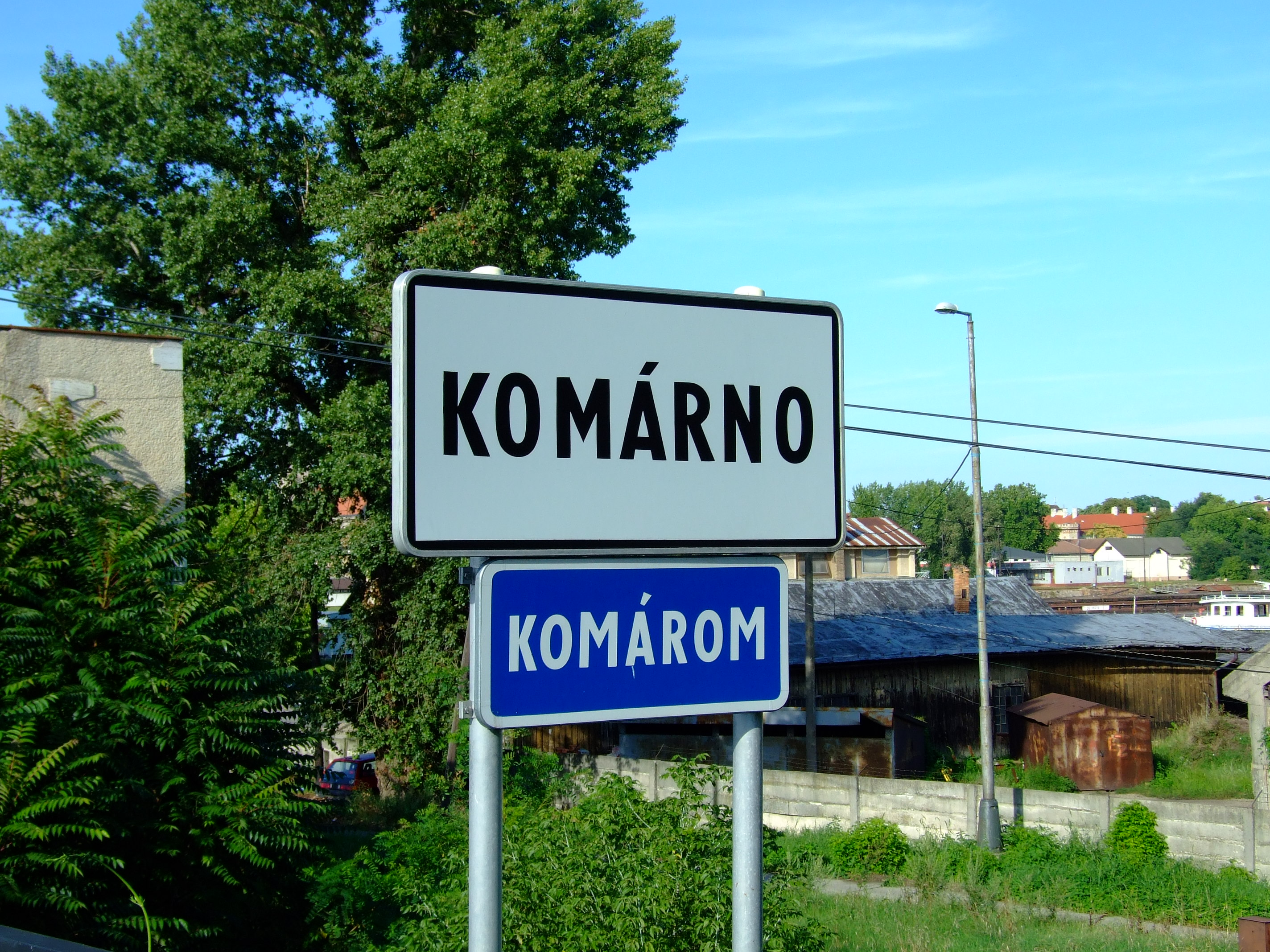 Komárno-Komárom border crossing, SK-HUhelp